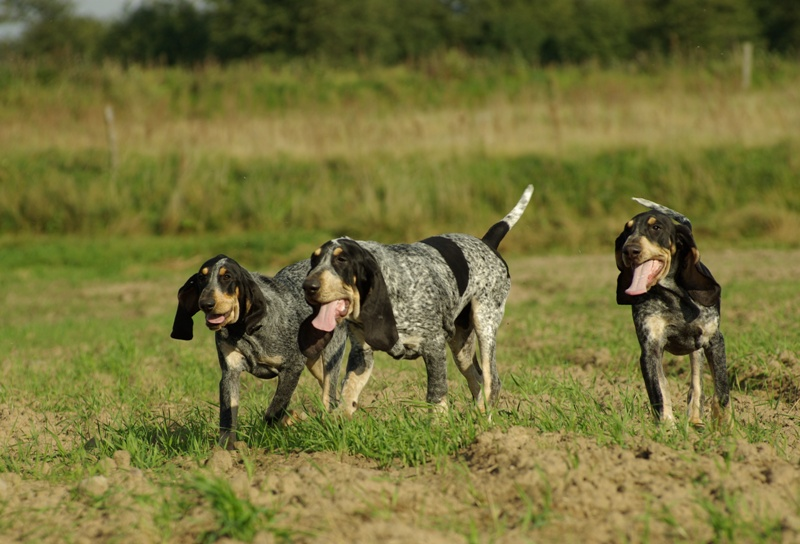 Small Blue Gascony Hound, "Bella, Baron i Brigand od Smutne ricky" from kennel "Le Bleu Cardinalis FCI", Poland. The owner - Katarzyna Bujko